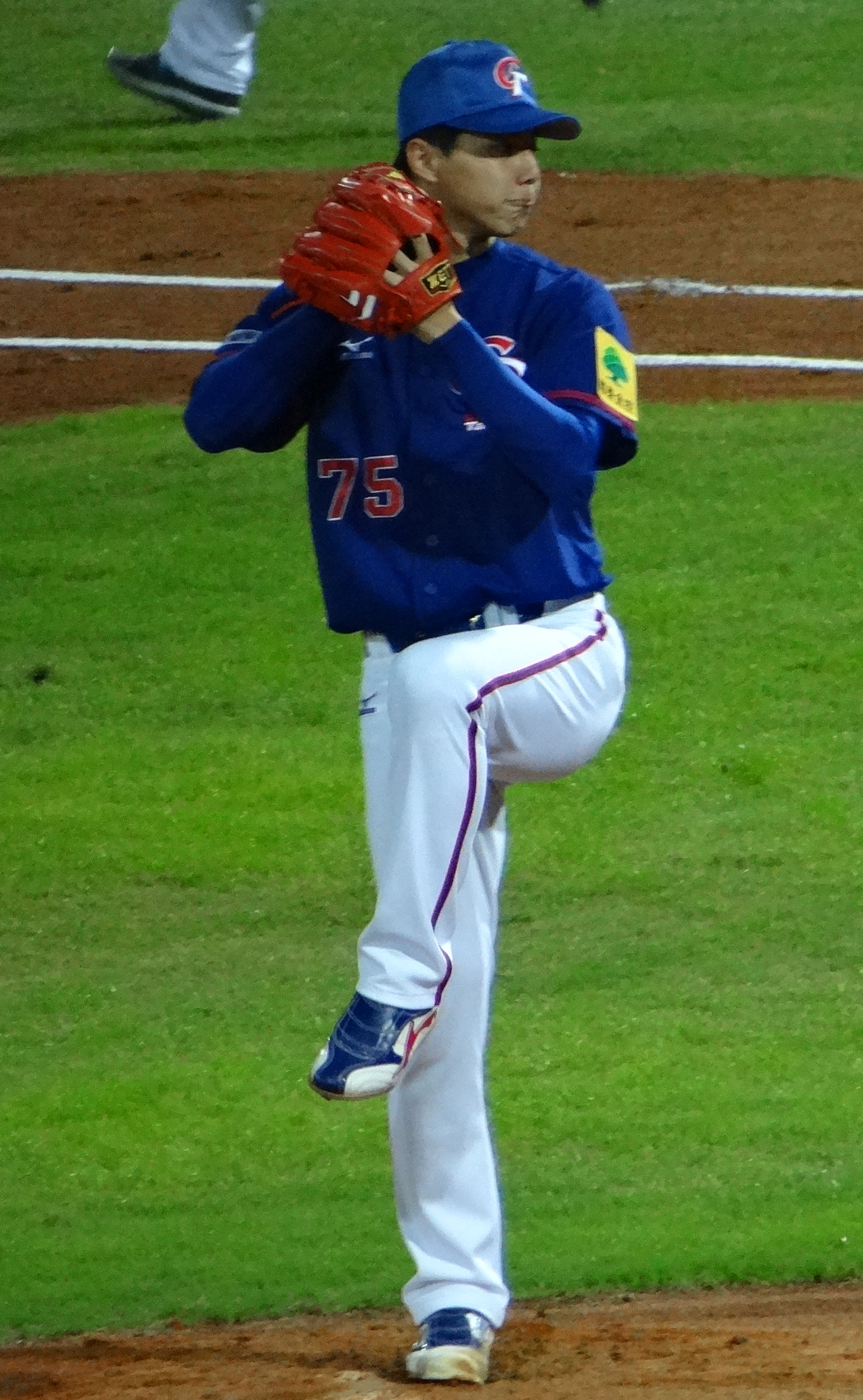 Chun-lin Kuo